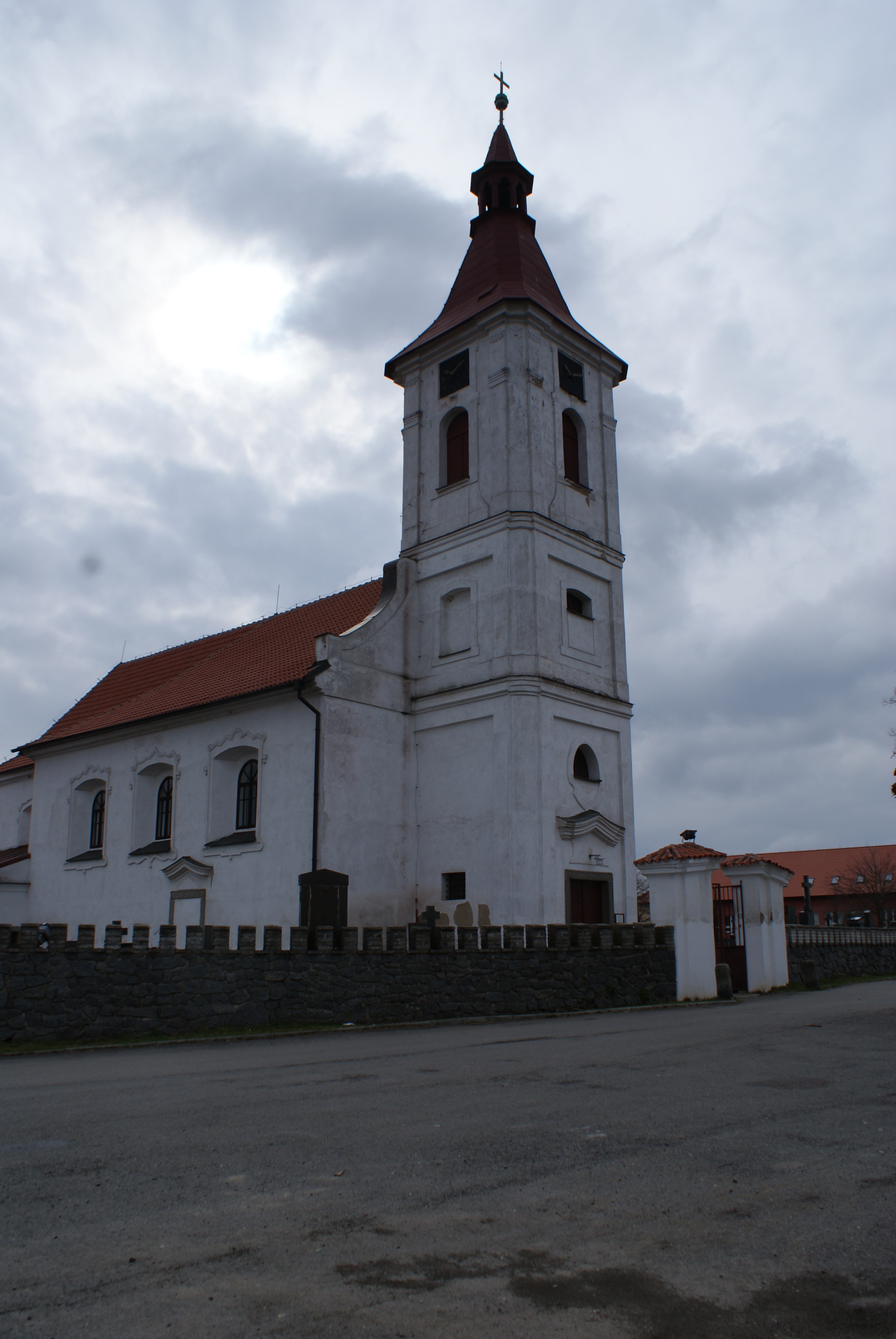 Chraštice, a village in Příbram district, Czech Republic, the church.